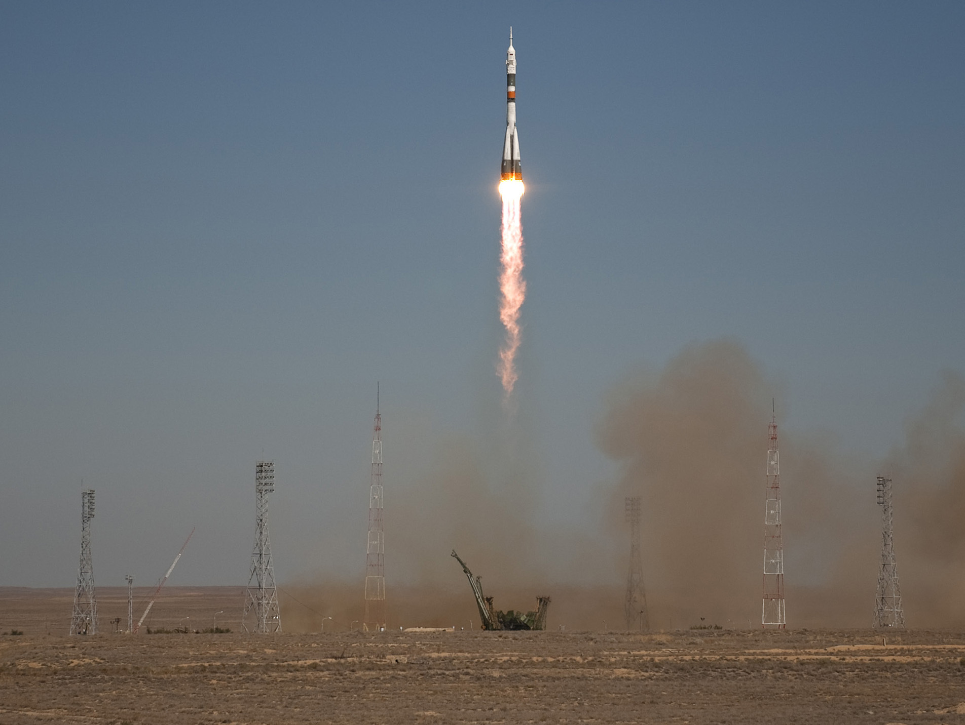 Carrying Expedition 21 flight engineers Jeffrey Williams and Maxim Suraev, as well as a spaceflight participant, this Soyuz-FG carrying Soyuz TMA-16 launched from the Baikonur Cosmodrome in Kazakhstan on Wednesday, Sept. 30, 2009, on its way to the International Space Station.